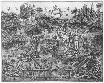 Meister der Liebesgärten, Der große Liebesgarten, Kupferstich, um 1440-1450, Kupferstichkabinett in Berlin.